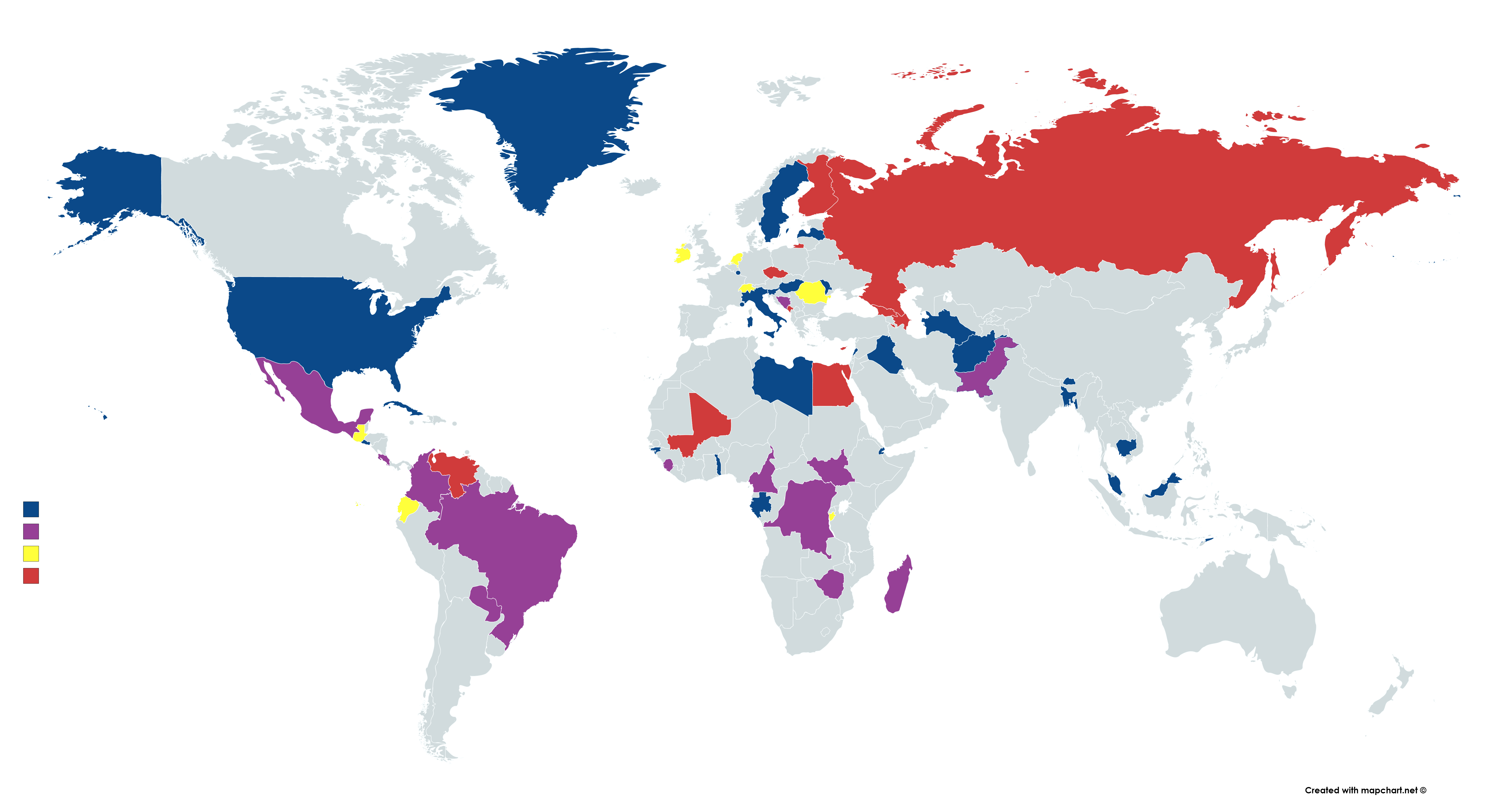 2018 national electoral map